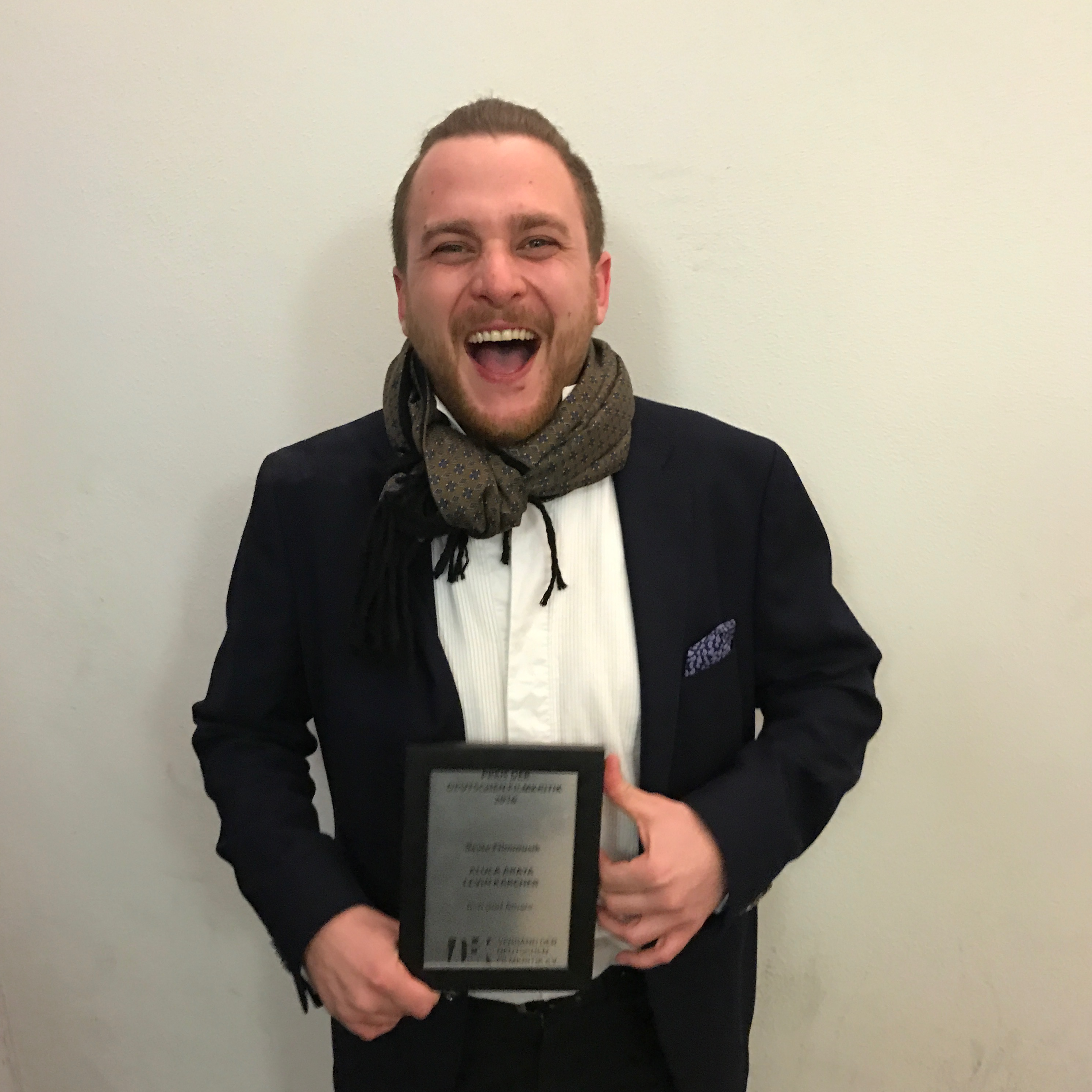 2017 German Film Critics Association Awards, Berlin